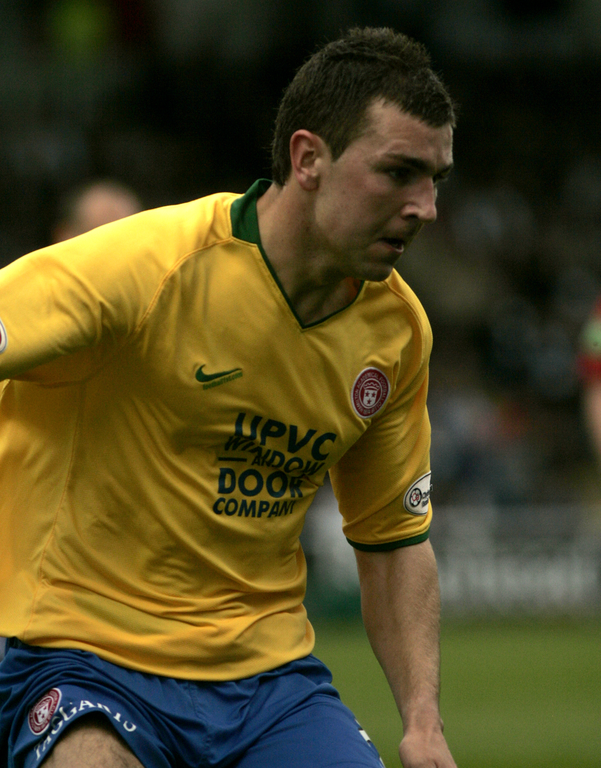 James McArthur playing for Hamilton against St Mirren in May 2009